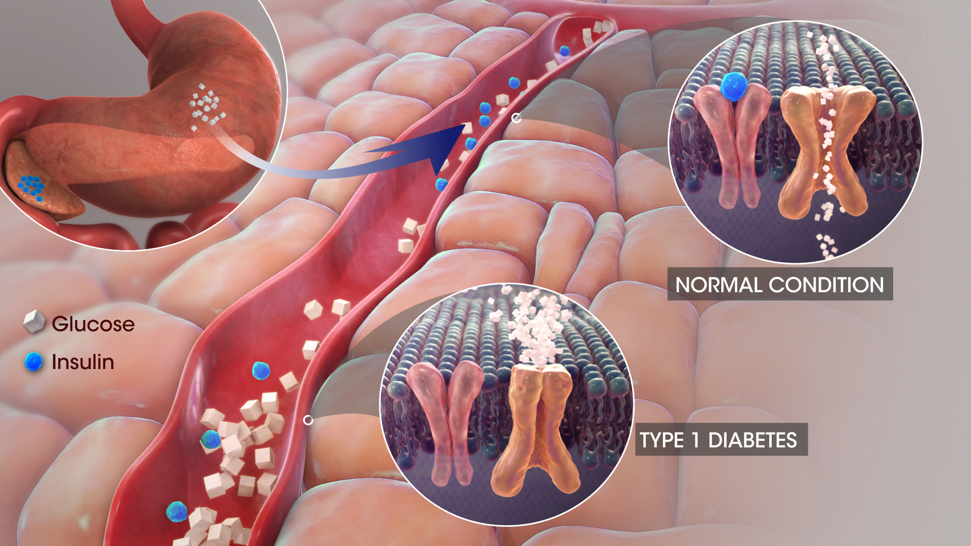 3D medical animation still of Type 1 Diabetes showing lower amount of insulin production in a diabetic patient.